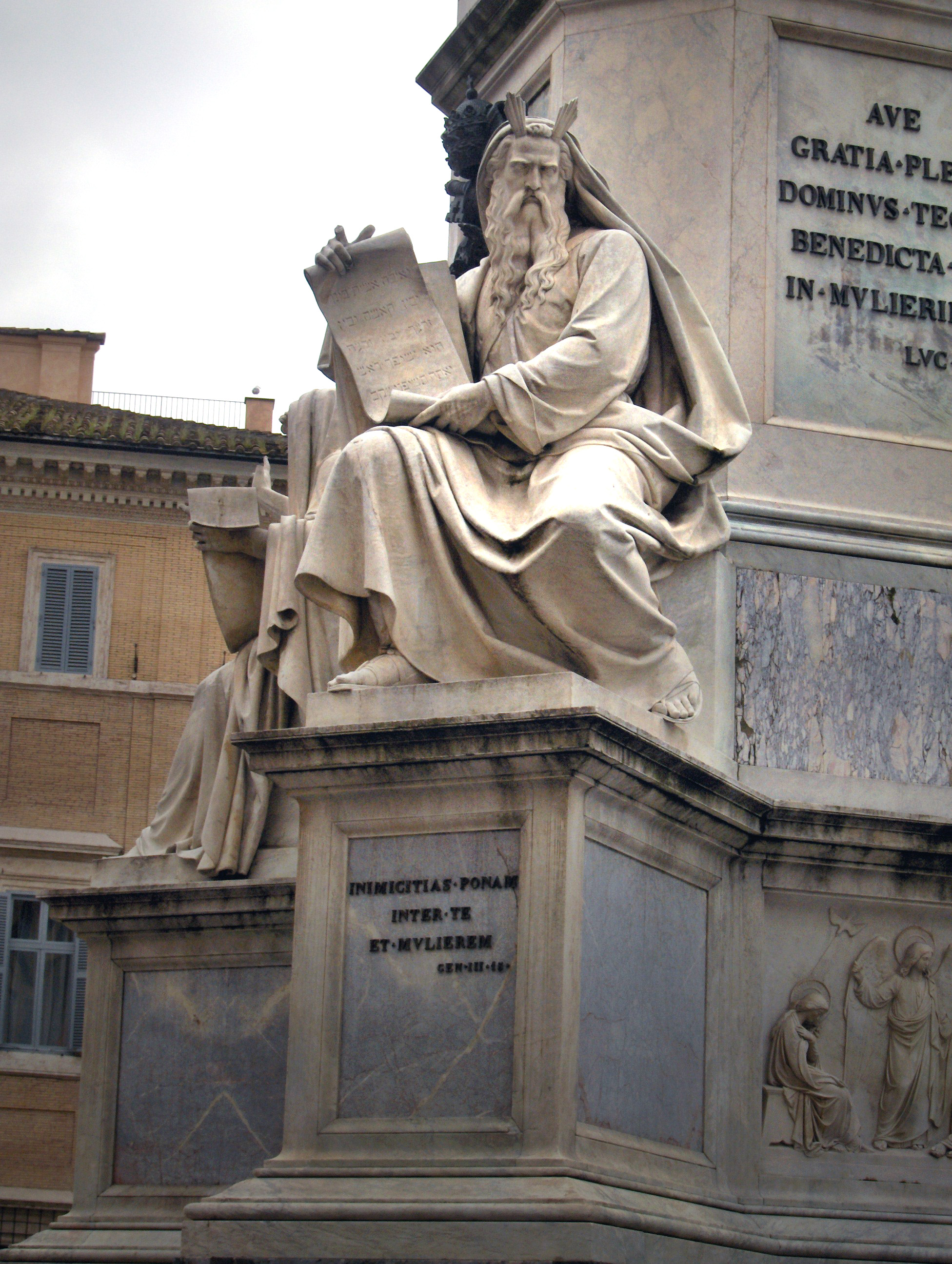 The Column of the Immacolata with the statue of Moses (by Ignazio Jacometti) in the Piazza Mignanelli, next to the Piazza di Spagna, Rome, Italy